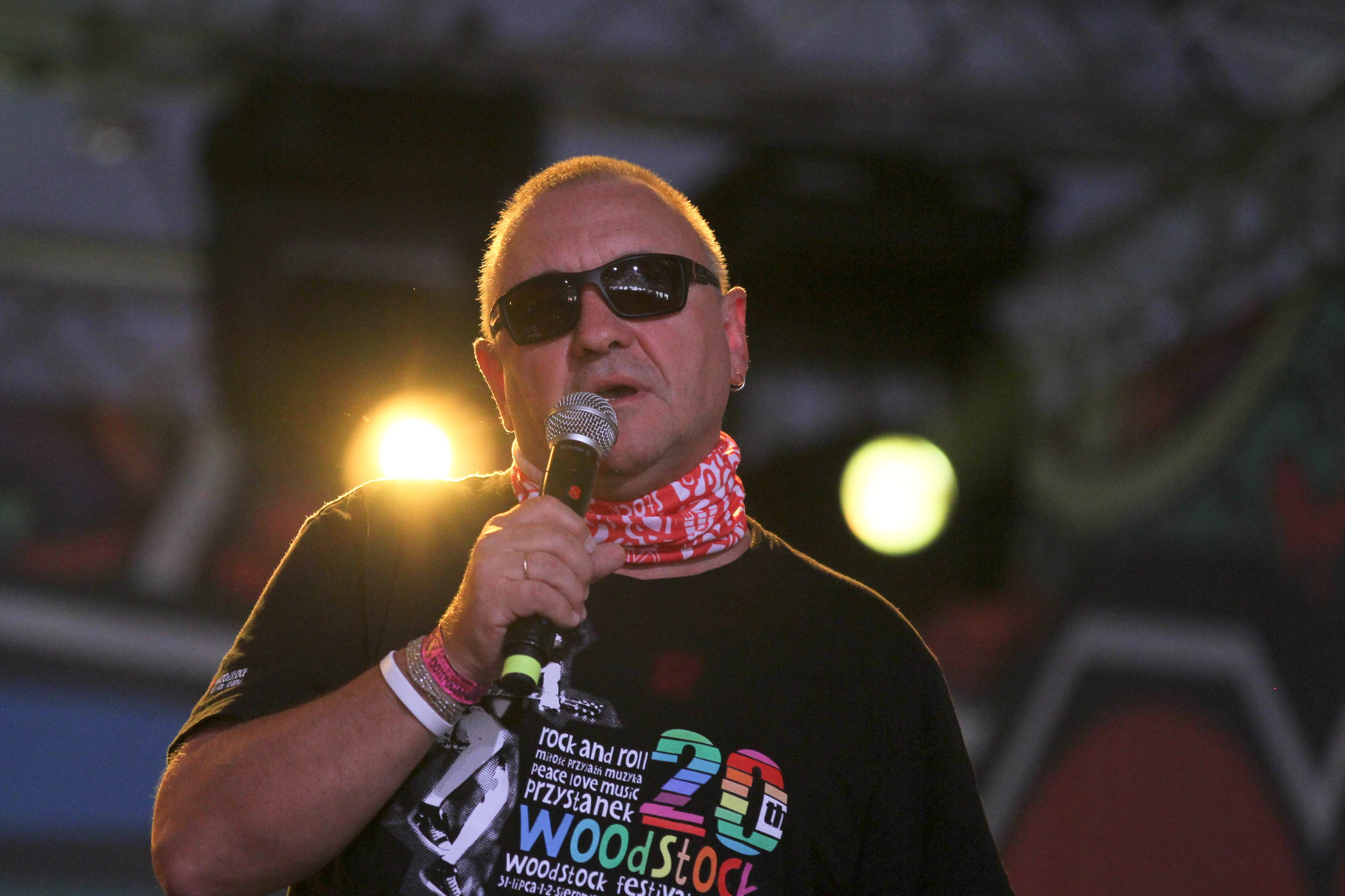 Przystanek Woodstock 2014.